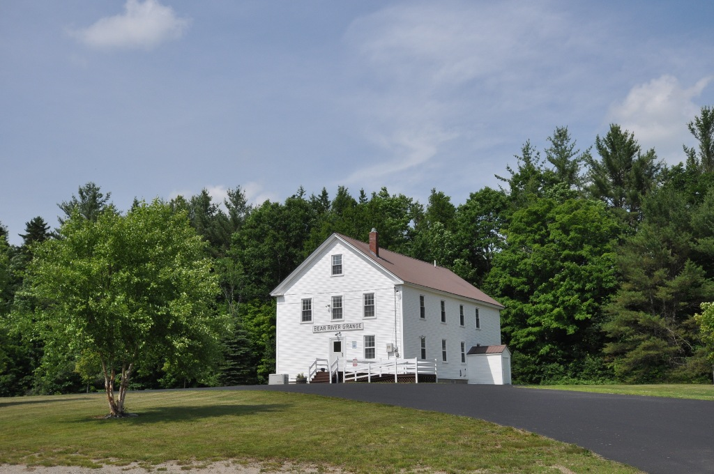 Bear River Grange, Newry, Maine